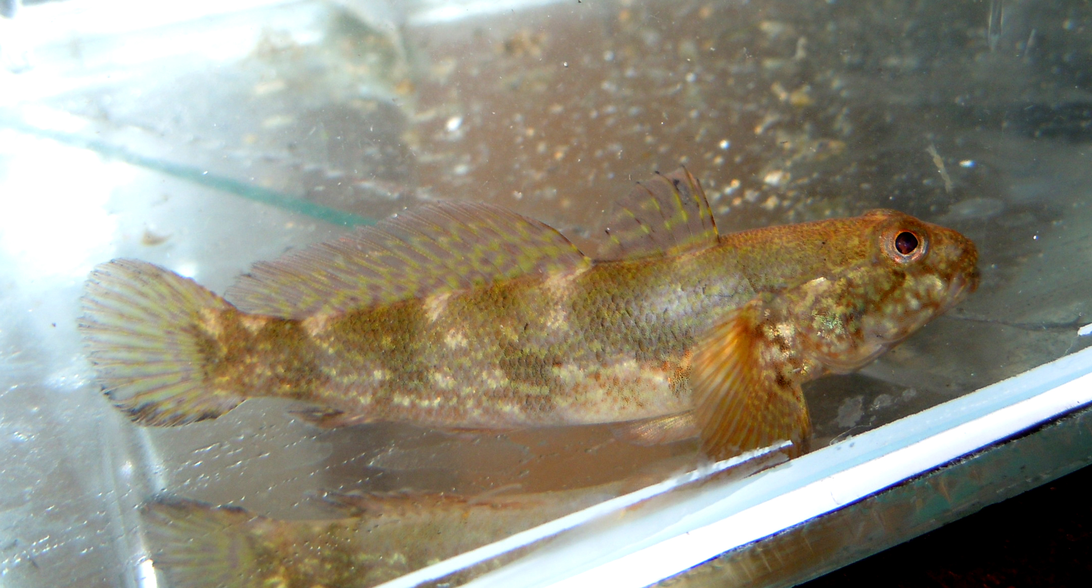 Ratan goby (Ponticola ratan) from the Gulf of Odessa, Ukraine